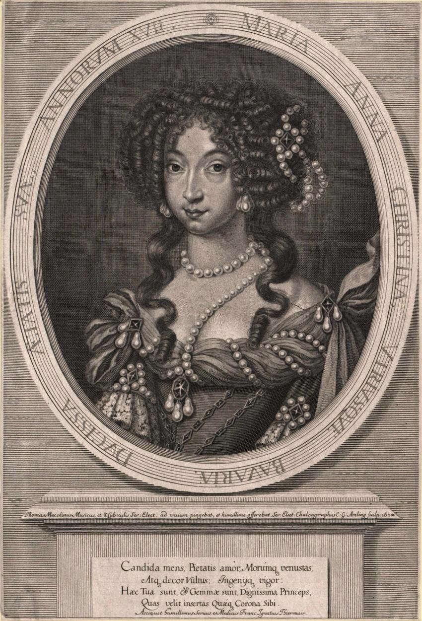 Portrait of Maria Anna Christina Victoria of Bavaria, Dauphine of France.